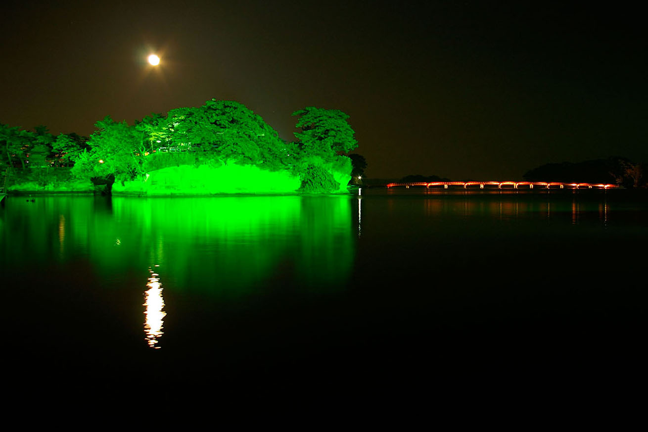 Matsushima with moon